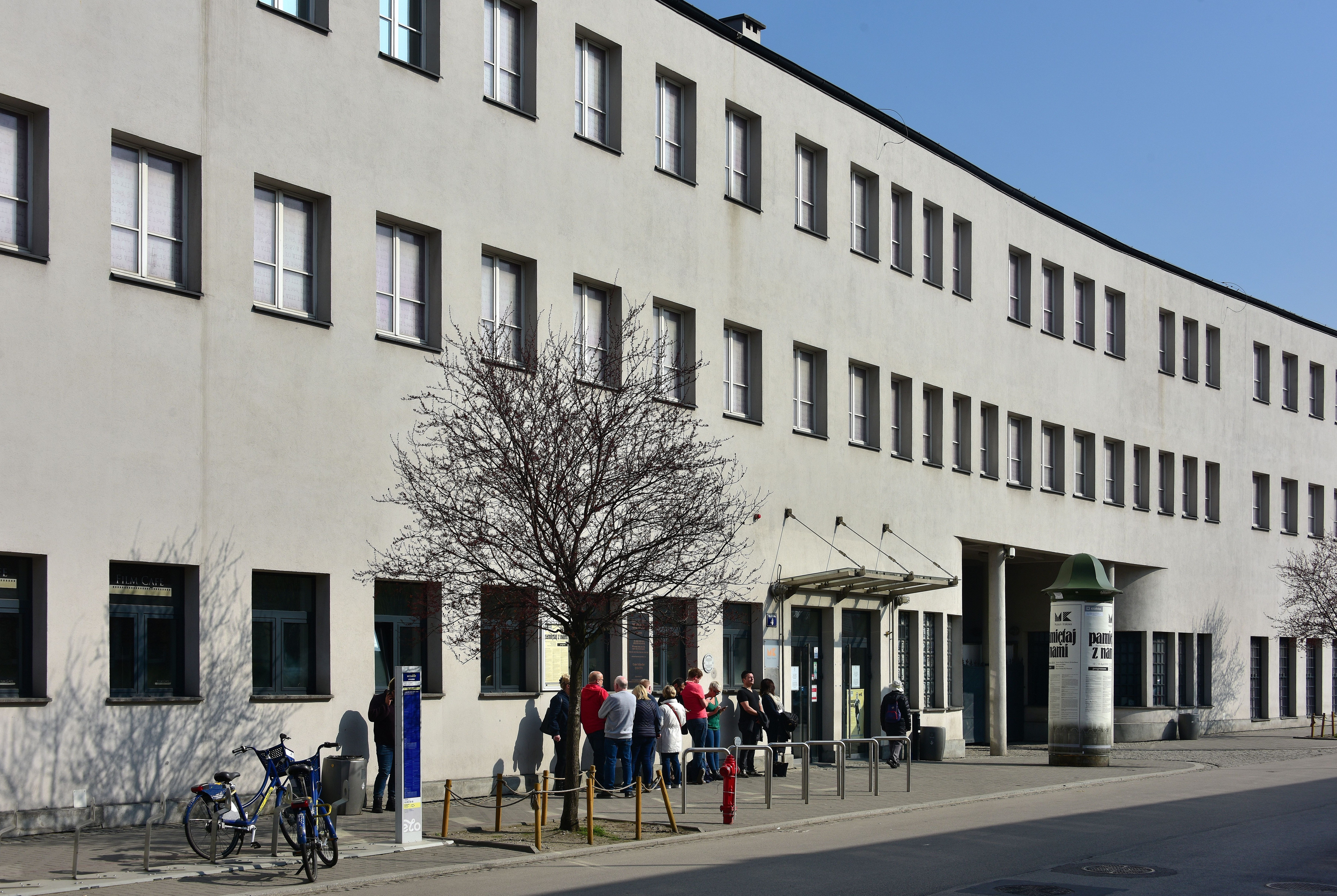 Former Oscar Schindler's factory at 4 Lipowa Street in Kraków